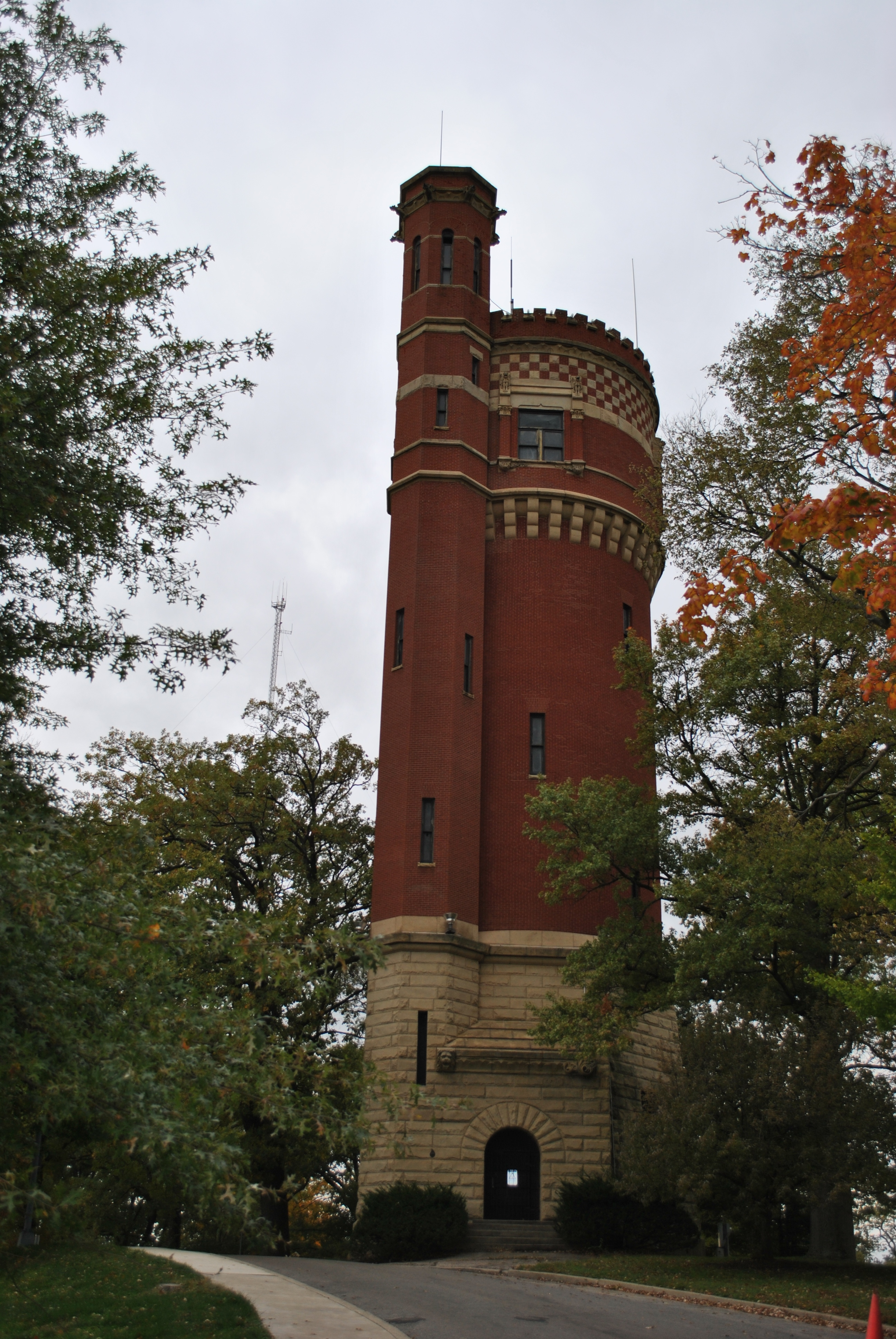 Eden Park View 3